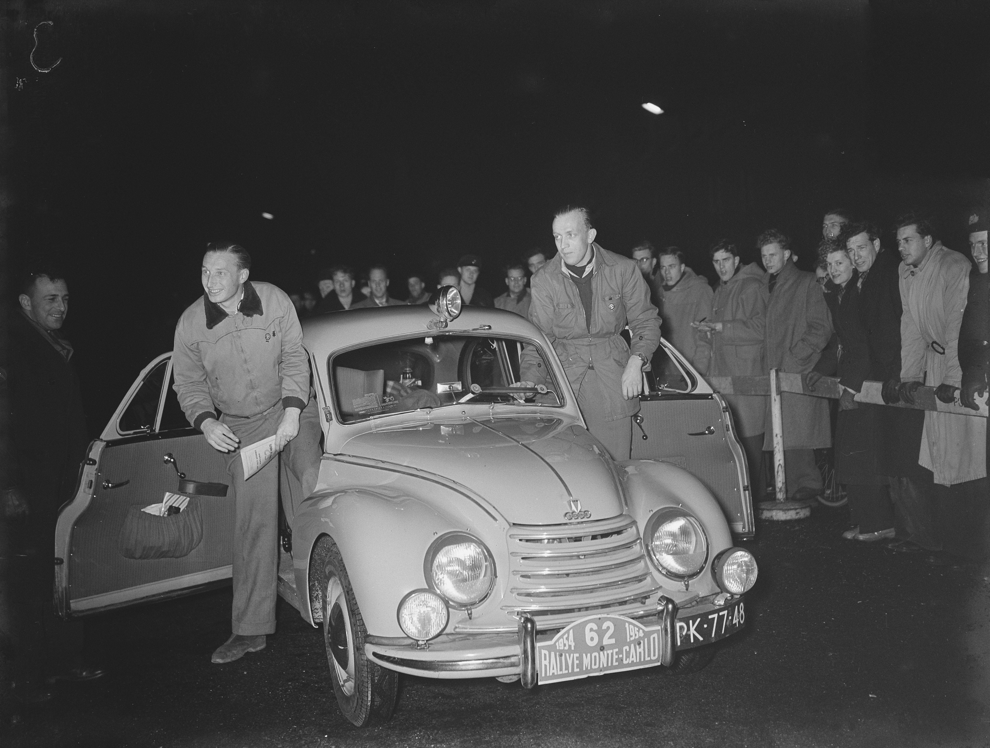 Entry #62 in the 1954 Rallye Monte Carlo was a DKW F89 (looks like a dutch license plate "PK-77-48"), entered by Greeve and Eschauzier.[1]